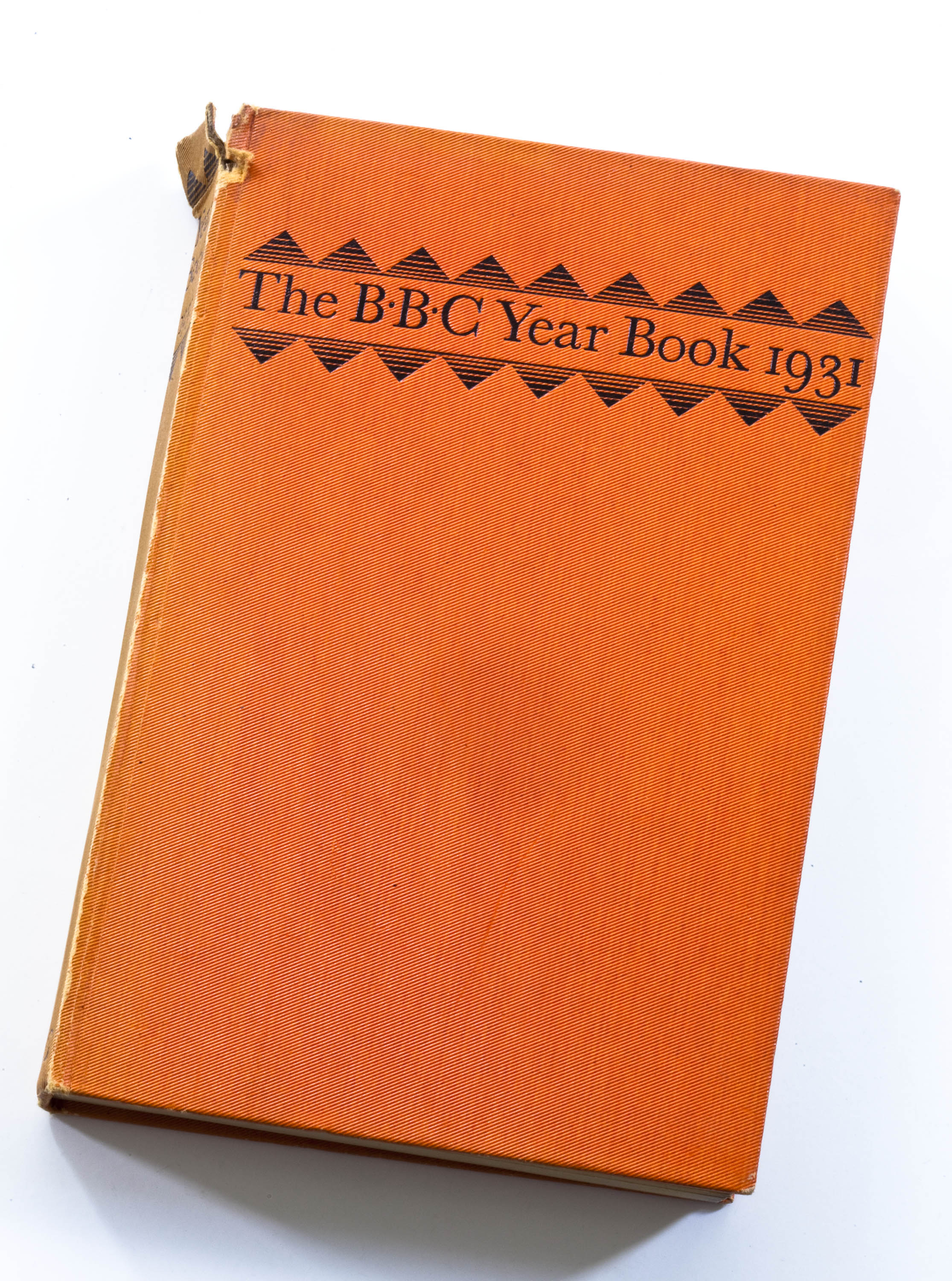 Cover of the BBC Year Book 1931